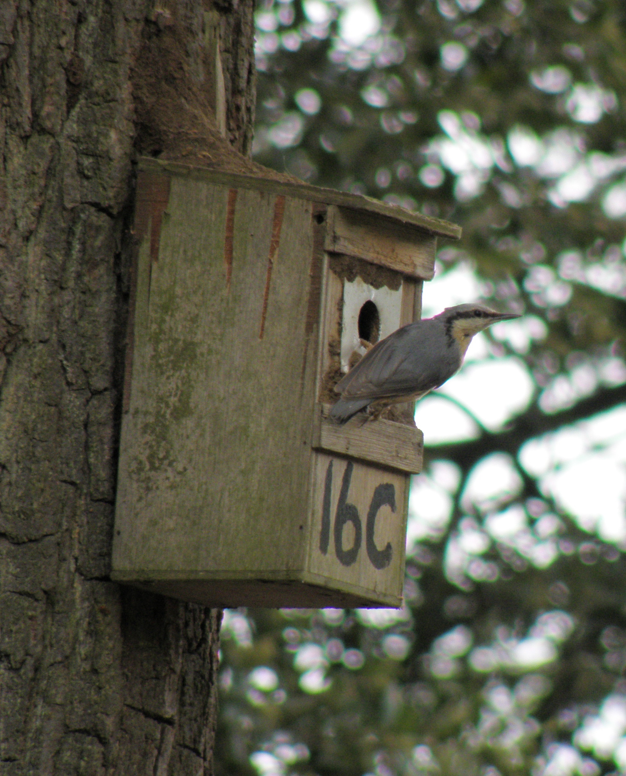 A Eurasian Nuthatch by its nest in a nest box in England.